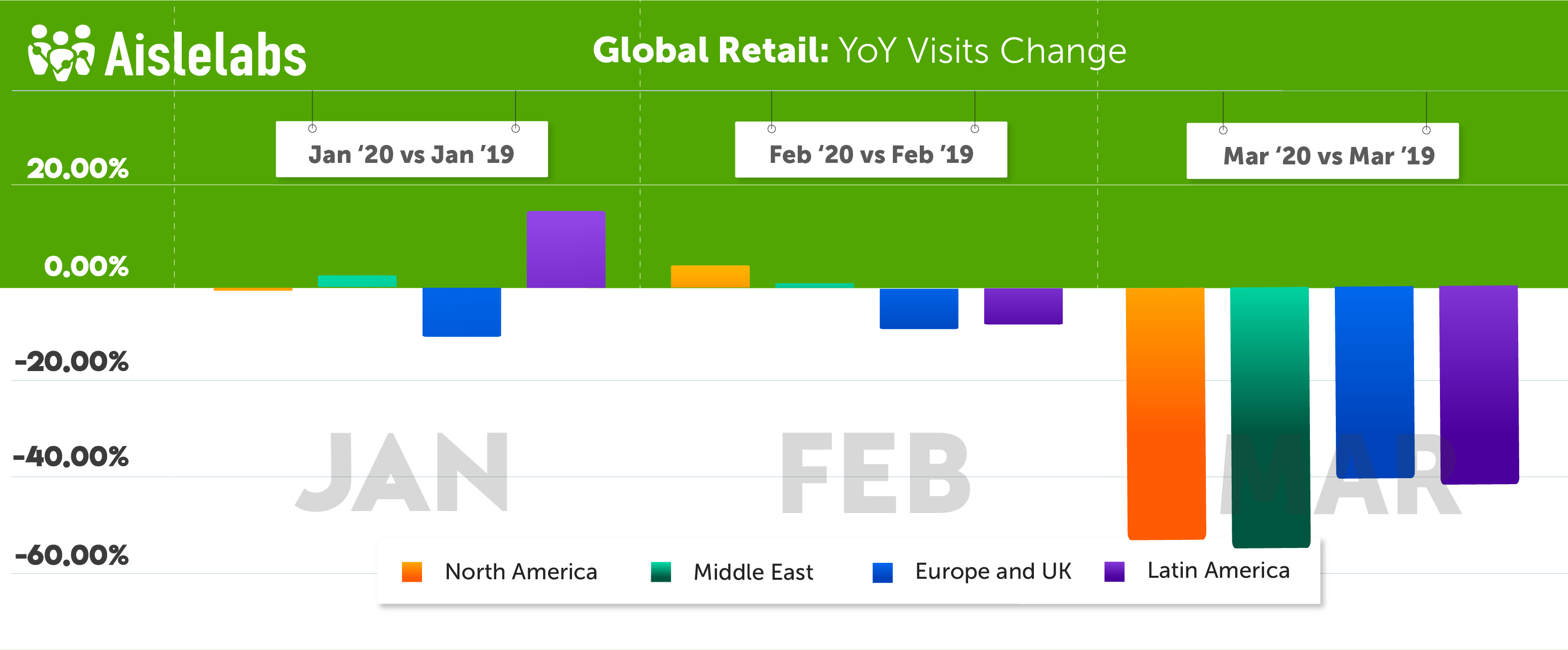 Change in YoY footfall across retail in North America, Middle East, Europe and UK, and Latin America. Shared under Creative Commons Share Alike license at